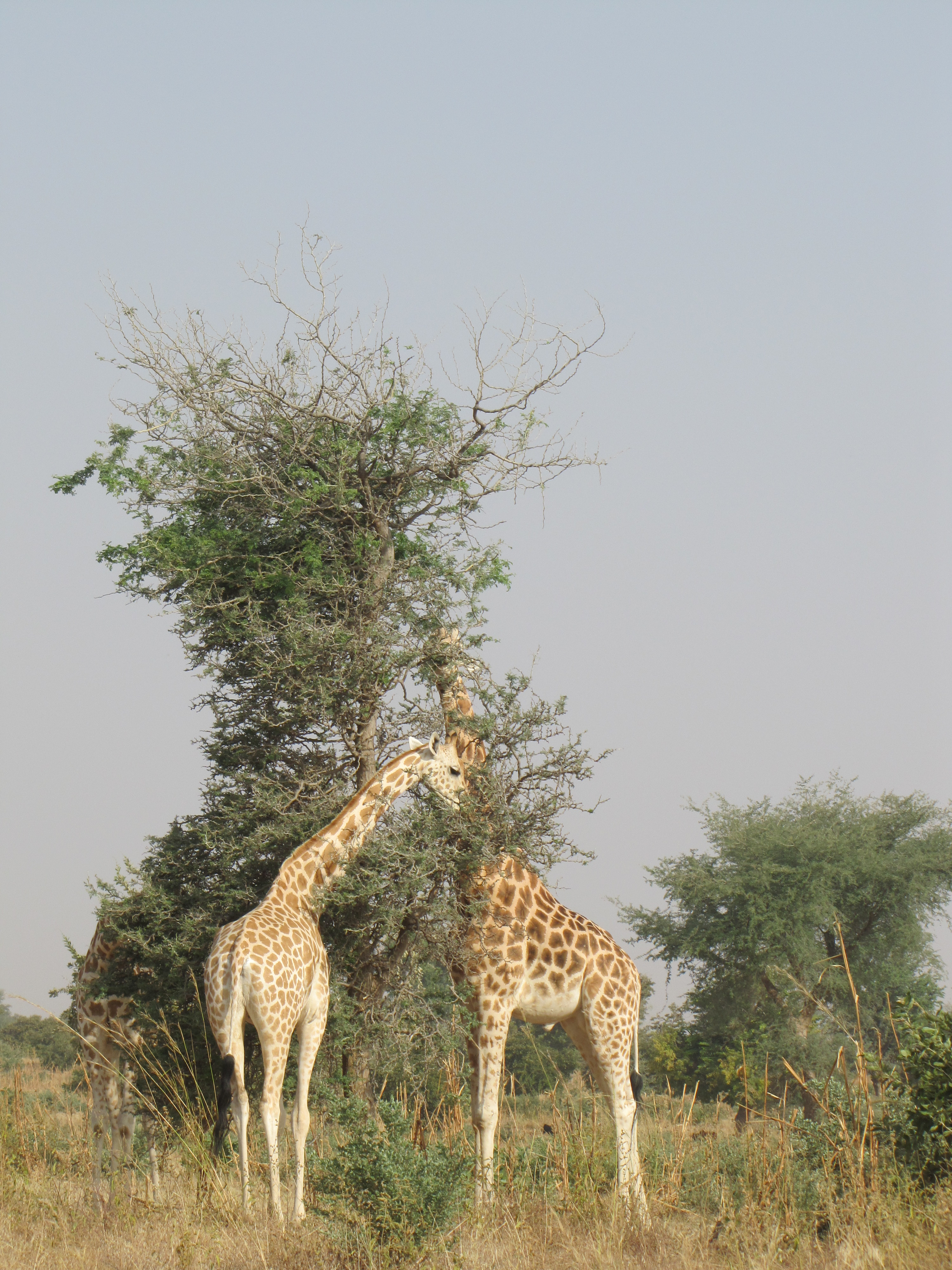 West African Giraffe near Kouré